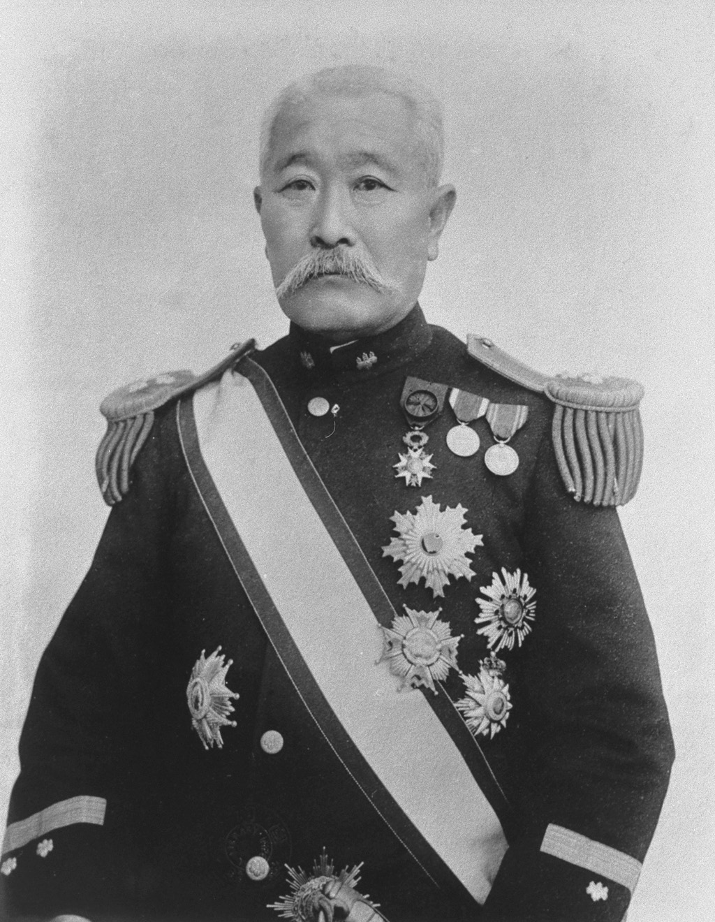 Portrait of Sone Arasuke (曾禰荒助, 1849 – 1910)